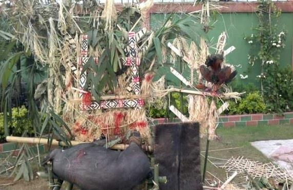 A sacrificial alter of the Bengru tribe